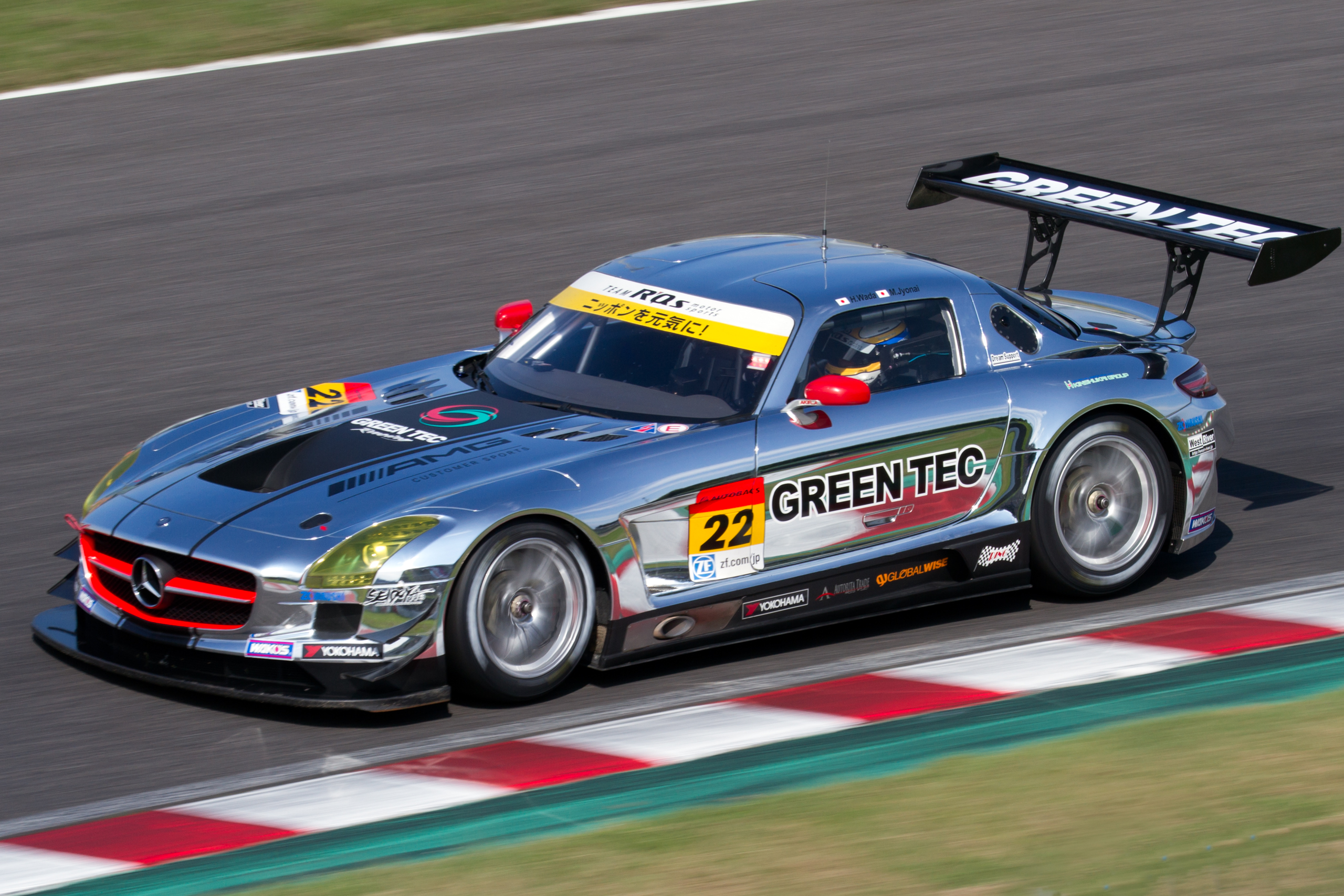 Super GT 2014 Rd.6 Suzuka 1000km: Hisashi Wada (Green Tec Racing)